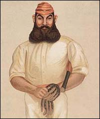 Cropped version of a caricature of WG Grace.